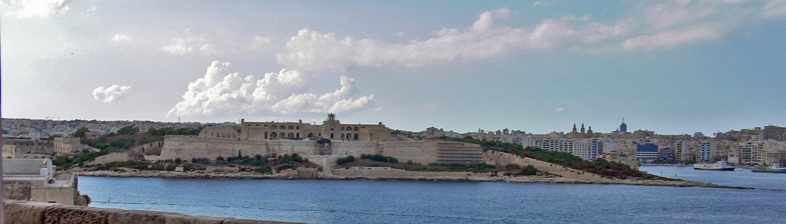 Panoramic view of Fort Manoel across Marsamxett from Valletta